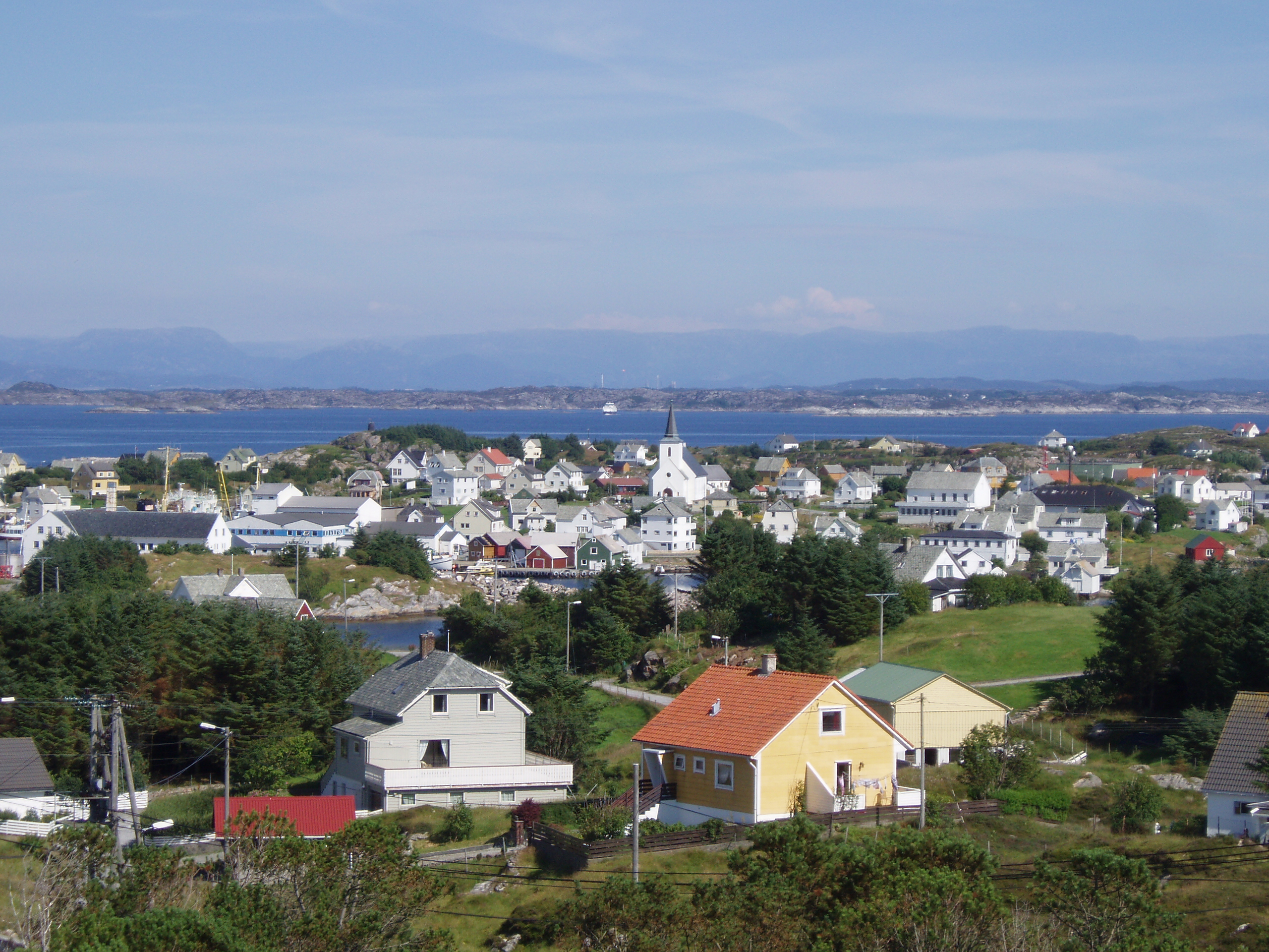 Fedje seen from the traffic central.